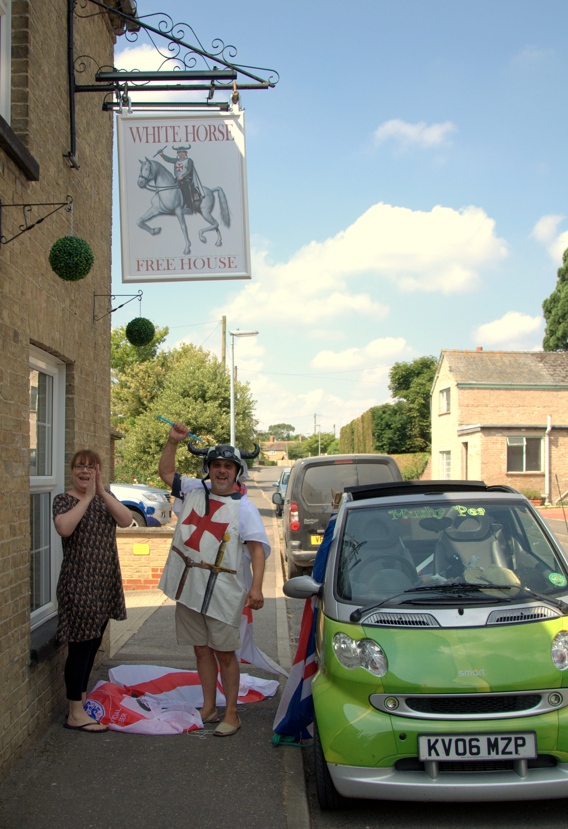 Landlady Linda Elbourne of the White Horse Witcham and Ian Ashmeade 2010,2011 and 5 hours later2018 World Peashooting Champeaion unveiling the new pub sign with Ian Ashmeade's head on it.